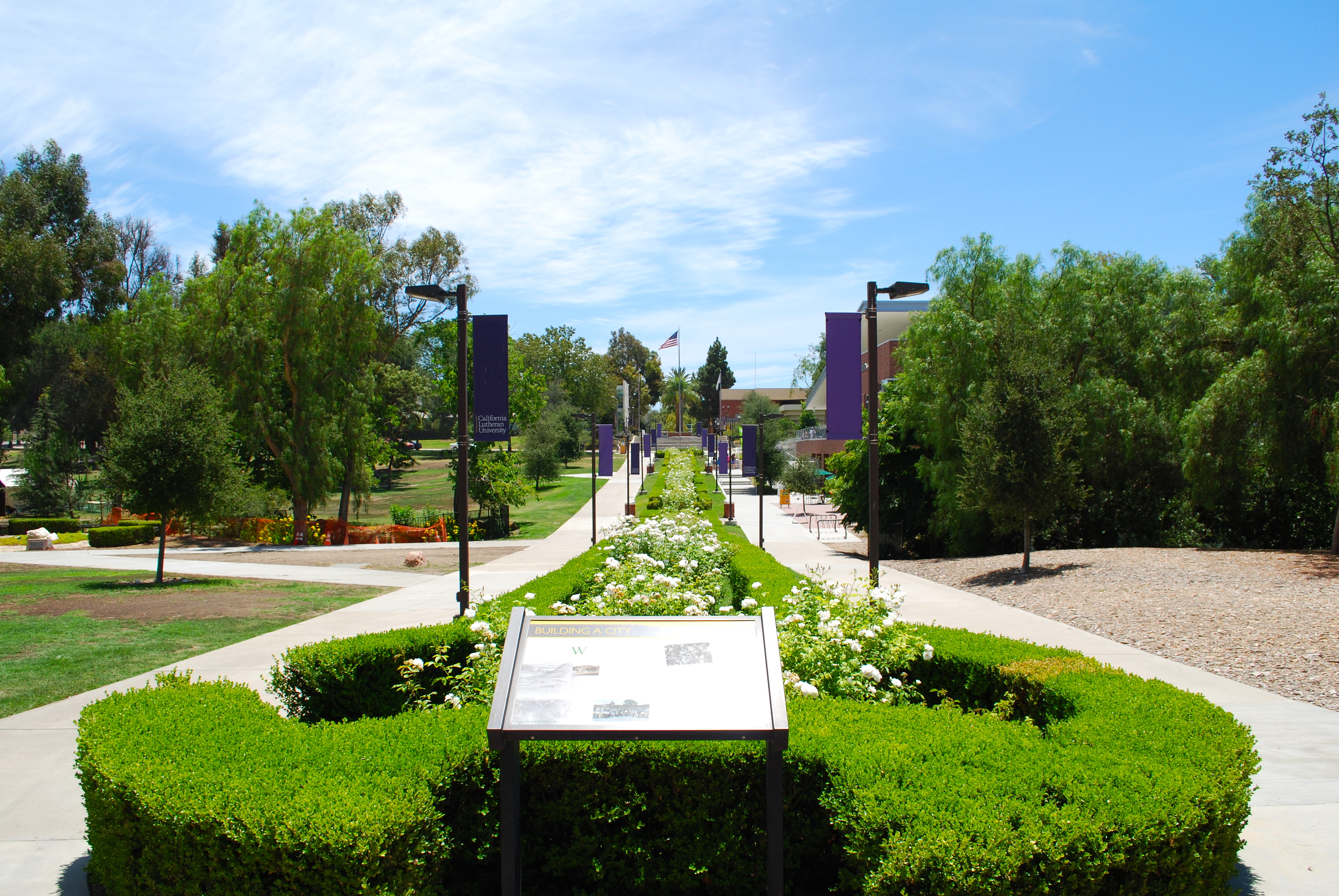 Regals Way as seen from The Enormous Luther (Gumby). California Lutheran University (CLU) in Thousand Oaks, CA.